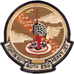 Emblem of the 40th Expeditionary Bomb Squadron